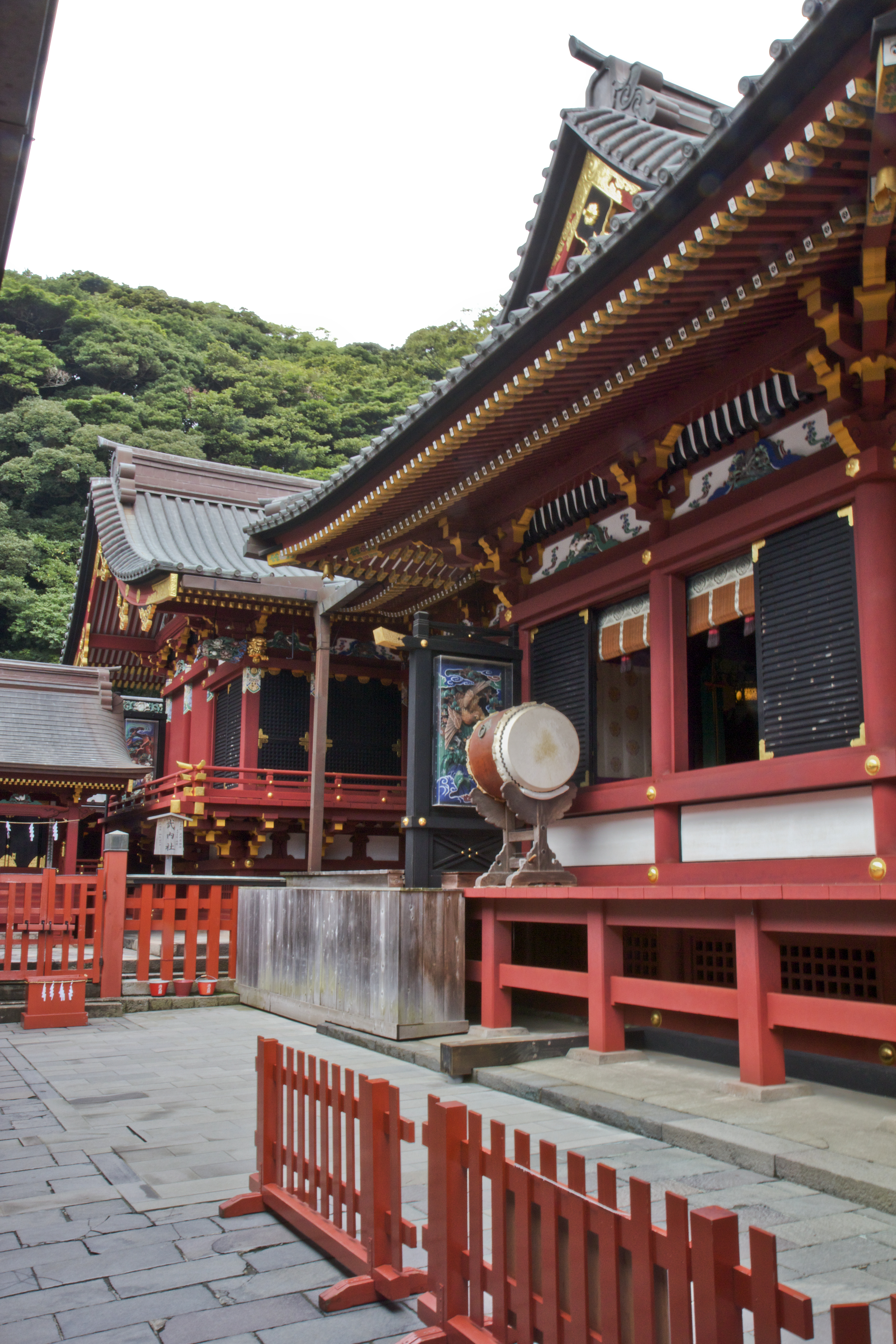 Tsurugaoka Hachiman-gū's honden, an example of hachiman-zukuri